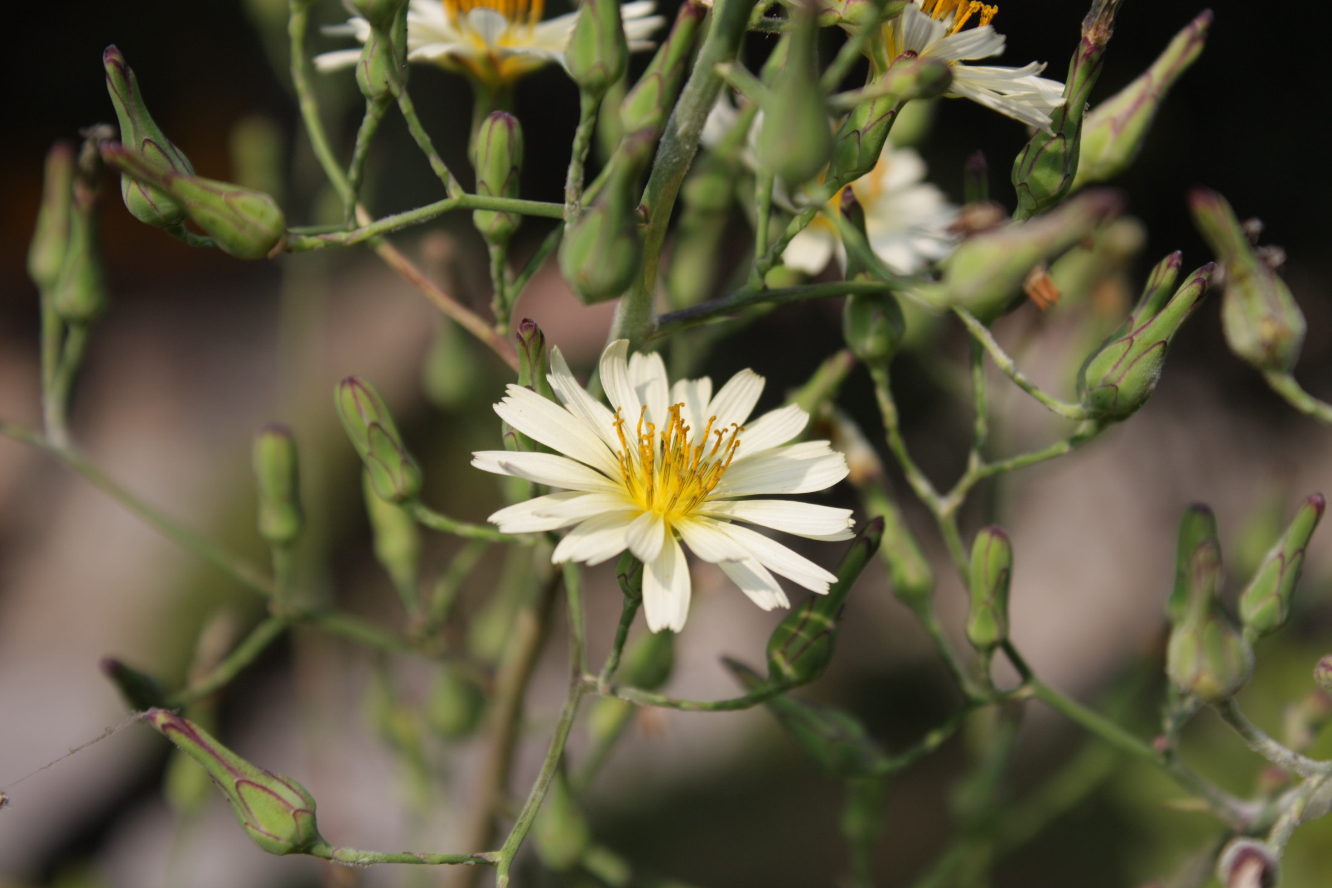 Lactuca indica